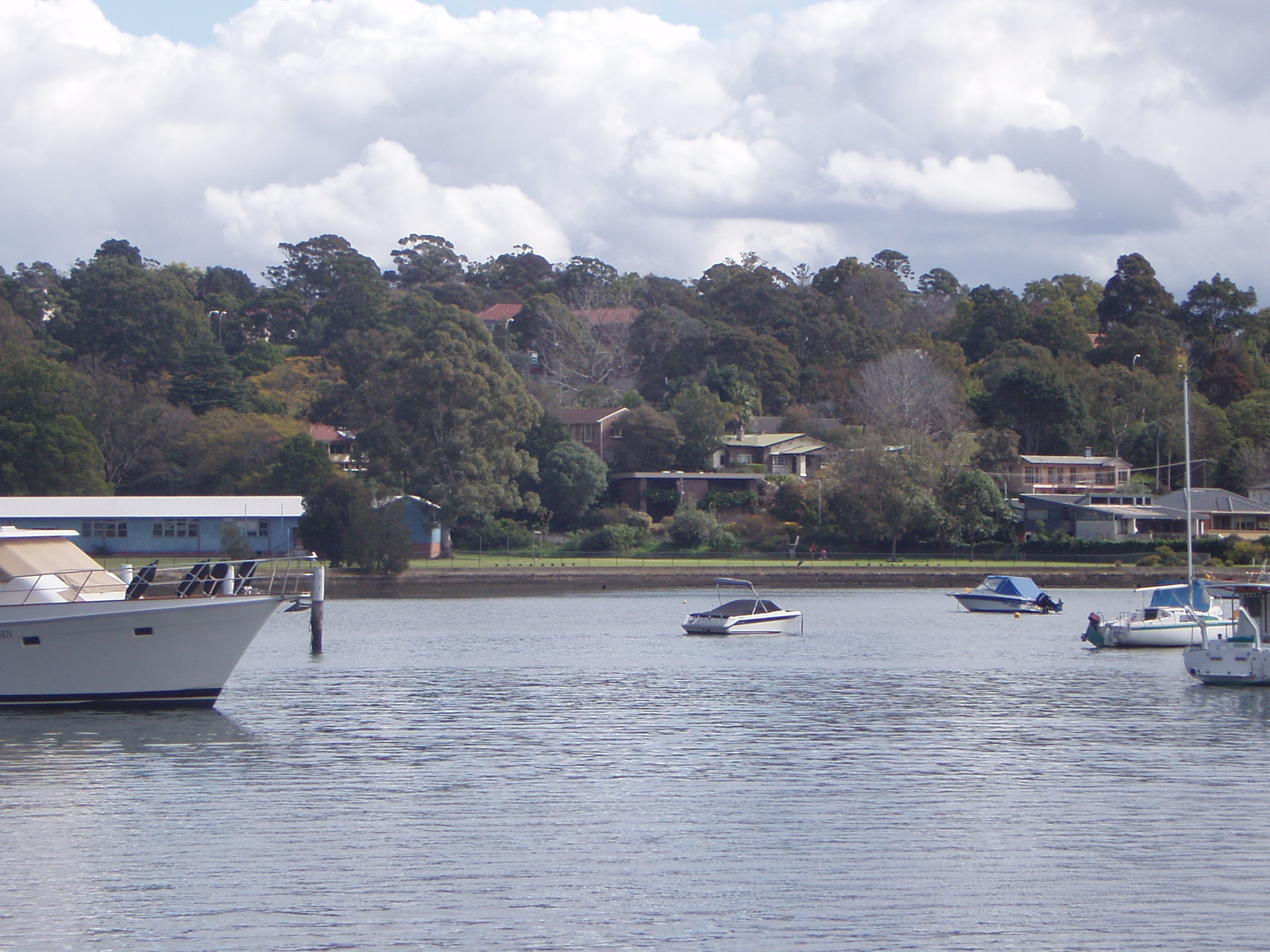 Hunters Hill High School behind boats from Hunters Hill waterfront.